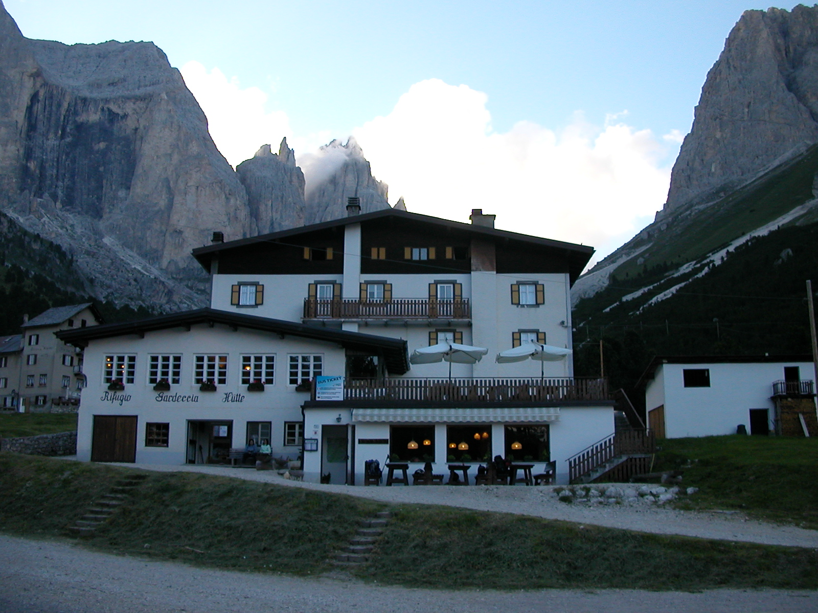 Rifugio Gardeccia (1949m, Rosengartengruppe, Gruppo del Catinaccio), at the left side the east face of the mountain Catinaccio and its northern summit.